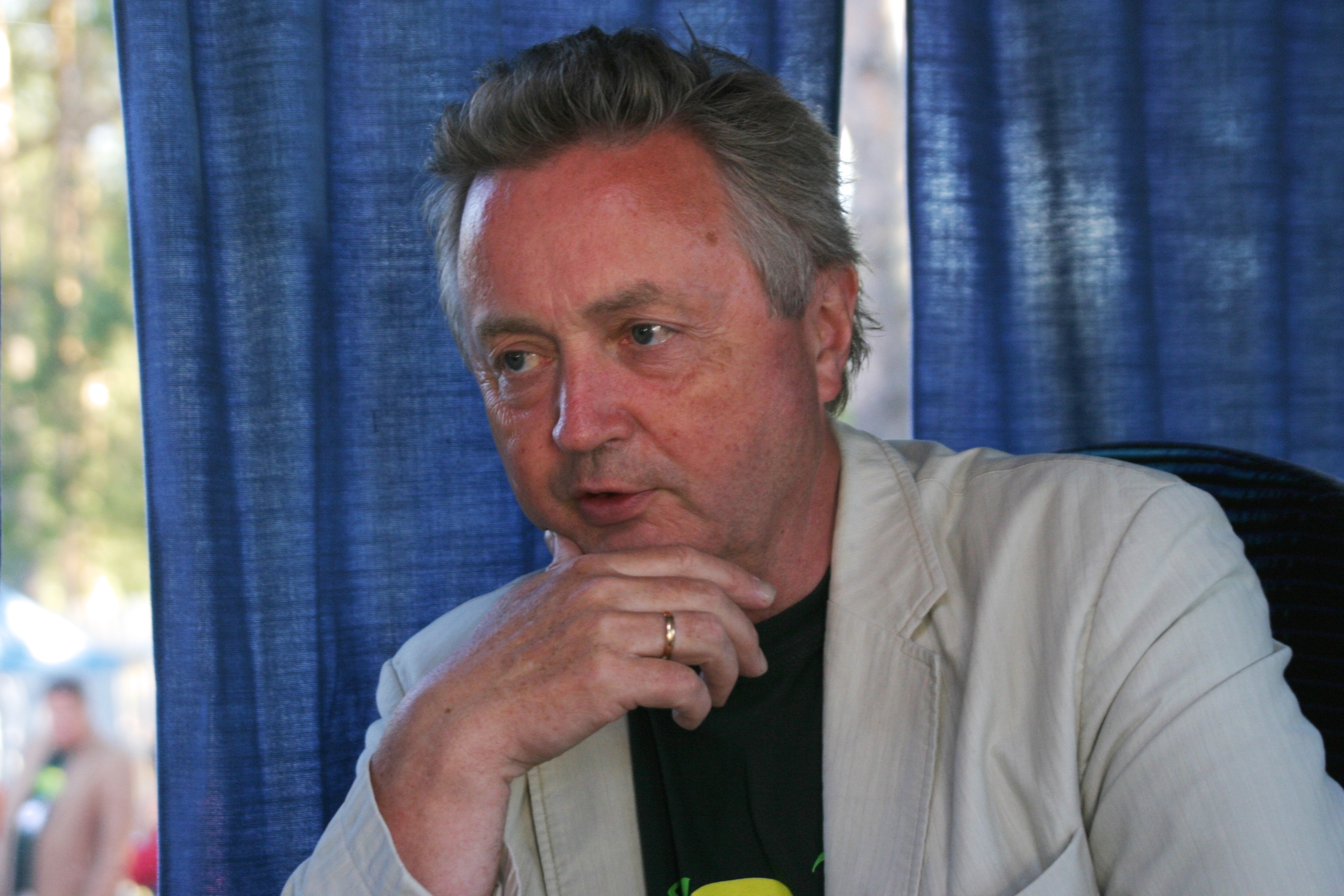 Jukka Kuoppamäki in Vihreät Niityt music festival in the summer 2006.